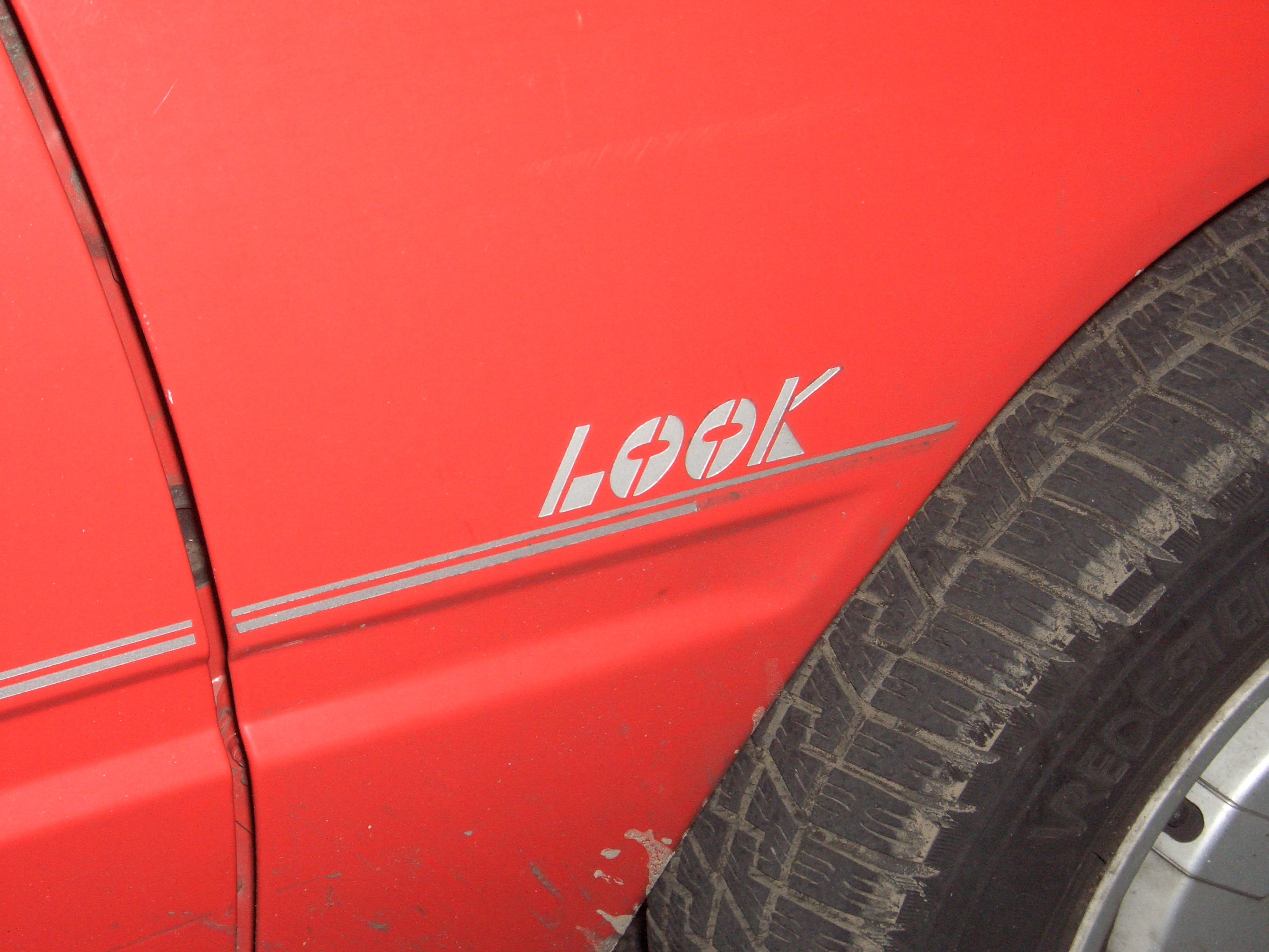 Peugeot 205, Gen2, 1990-1996, LOOK option, right front fender